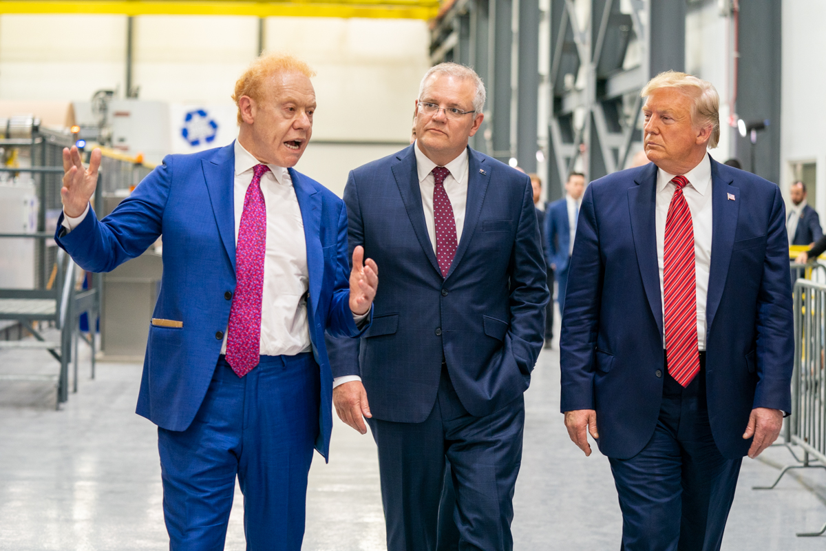 President Donald J. Trump and Australian Prime Minister Scott Morrison tour the Pratt Industries plant with Pratt Industries Executive Chairman Anthony Pratt Sunday, Sept. 22, 2019, in Wapakoneta, Ohio. (Official White House Photo by Shealah Craighead)